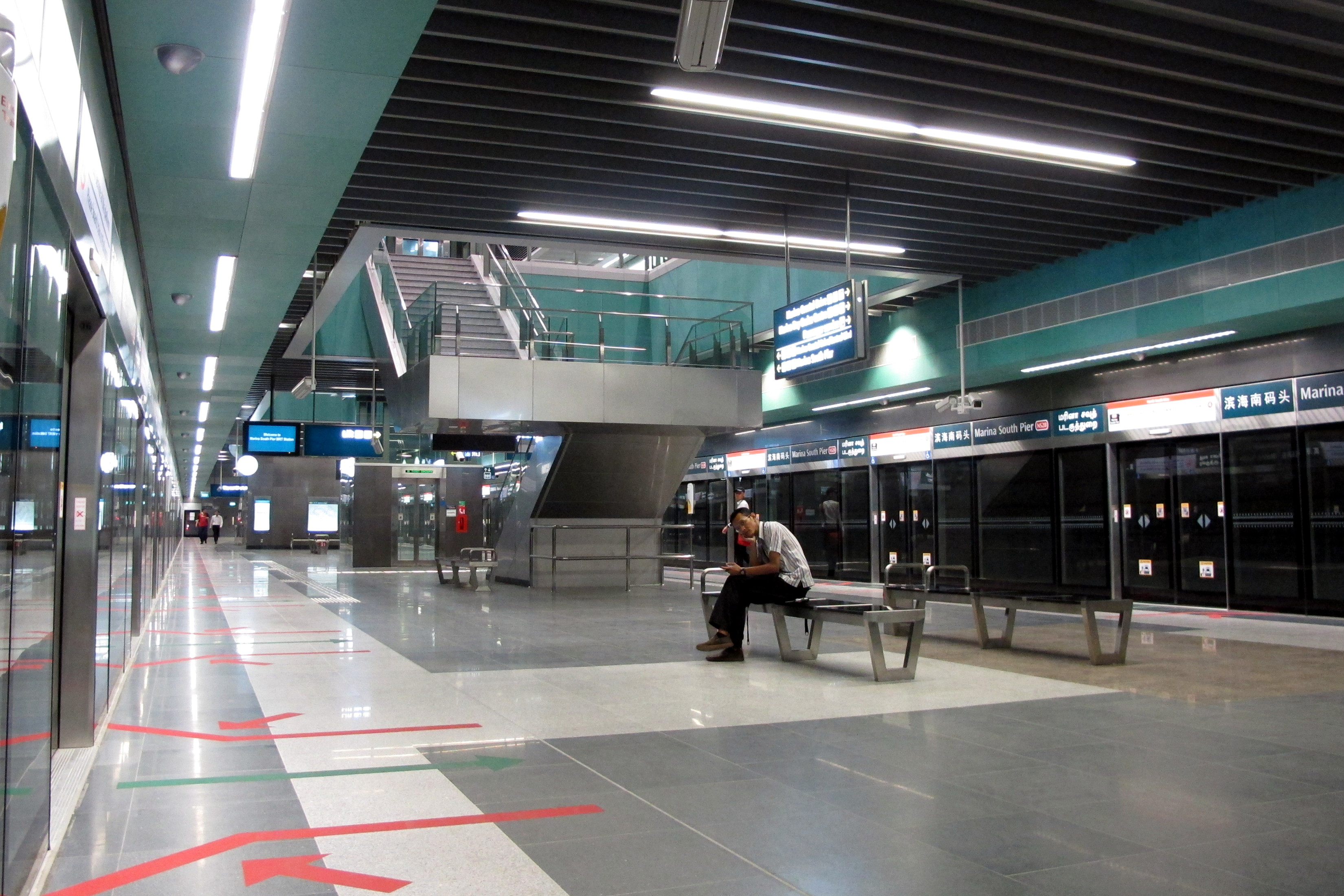 Marina South Pier MRT Station